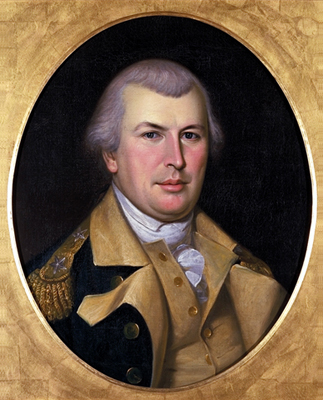 Nathanael Greene (May 27, 1742 – June 19, 1786)